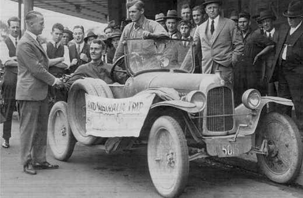 Bubsy : Citroen Type C 5 HP Torpedo which ran around Australia in 1925 (17000 km in 5 months).